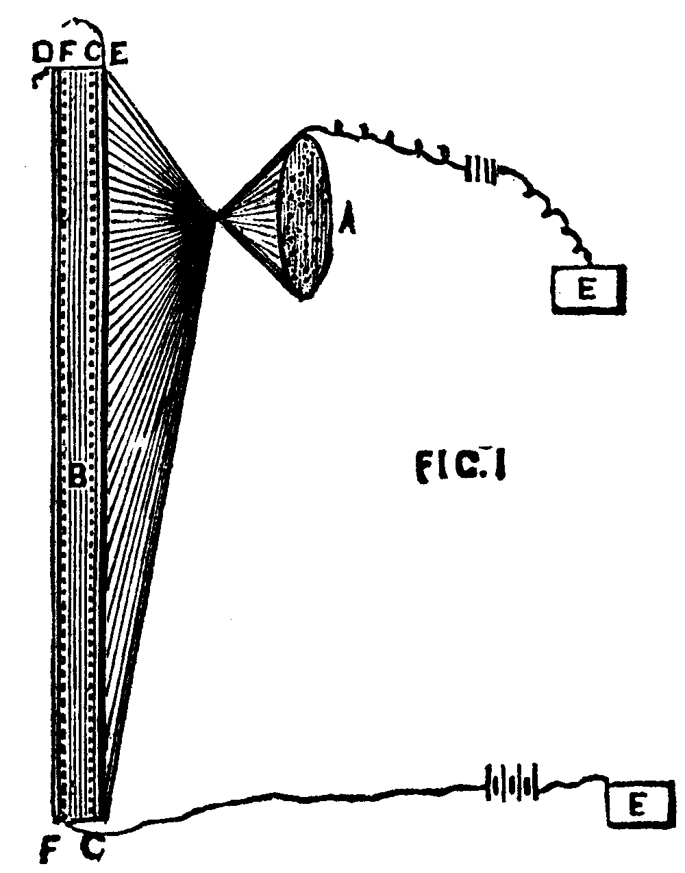 Constantin Senlecq's description of the transmitter part of the Telectroscope.